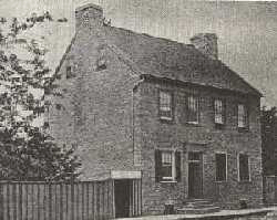 Two and a half storey house at 102 Rideau Street in Kingston, Ontario, Canada. A few months after he opened his first law office in 1835, John A. Macdonald moved with his parents and sisters to this house.